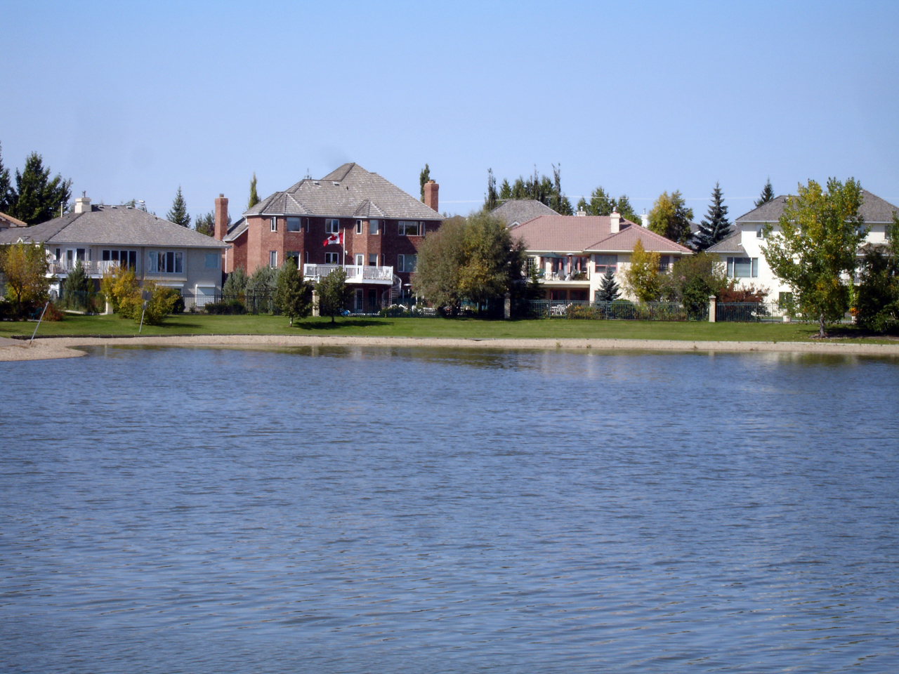 Homes in Briarwood, Saskatoon situated on the shores of Briarwood Lake.